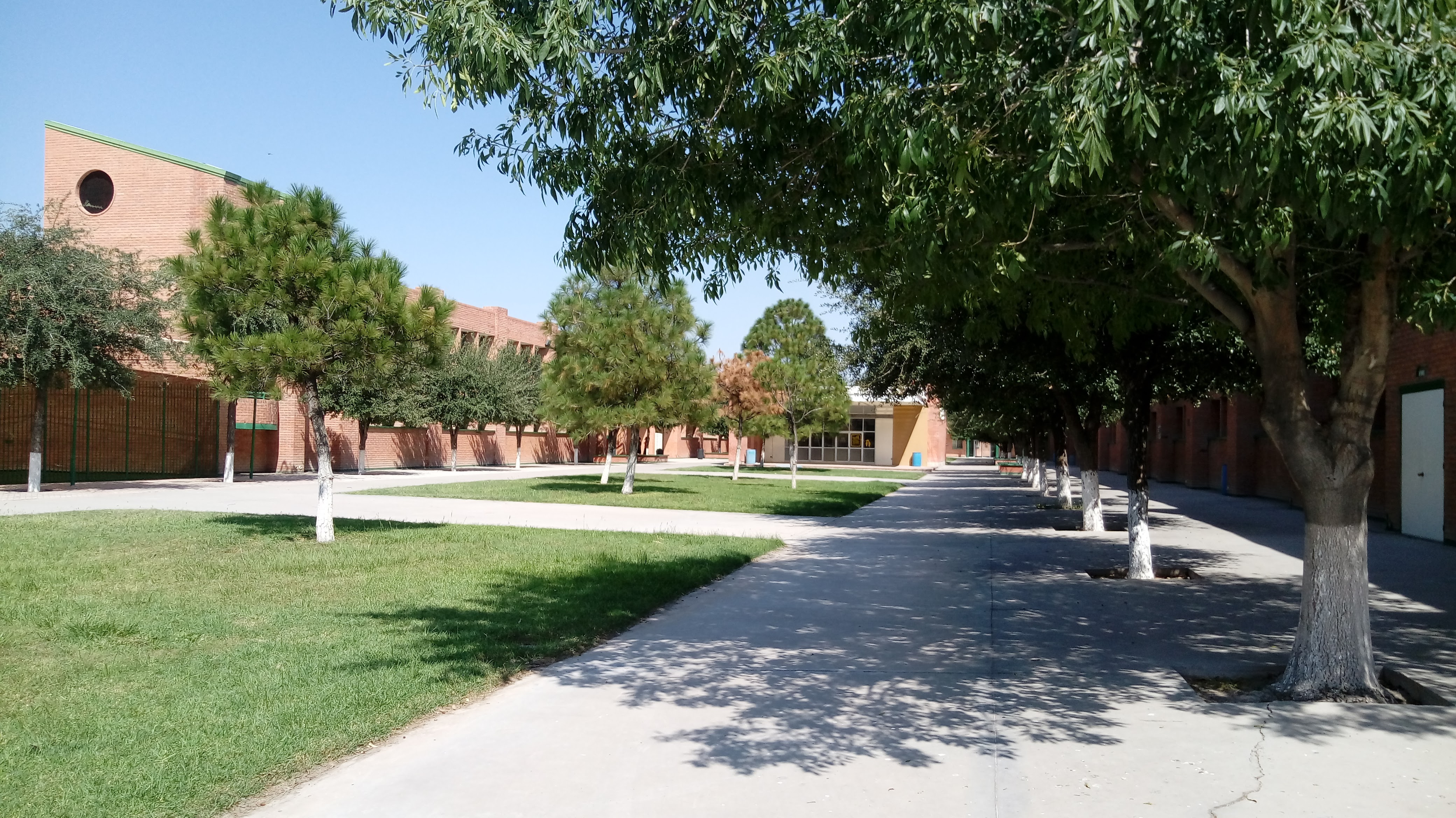 "San Ignacio" corridor at the Carlos Pereyra School. The elementary building and the cafeteria can be seen in the background